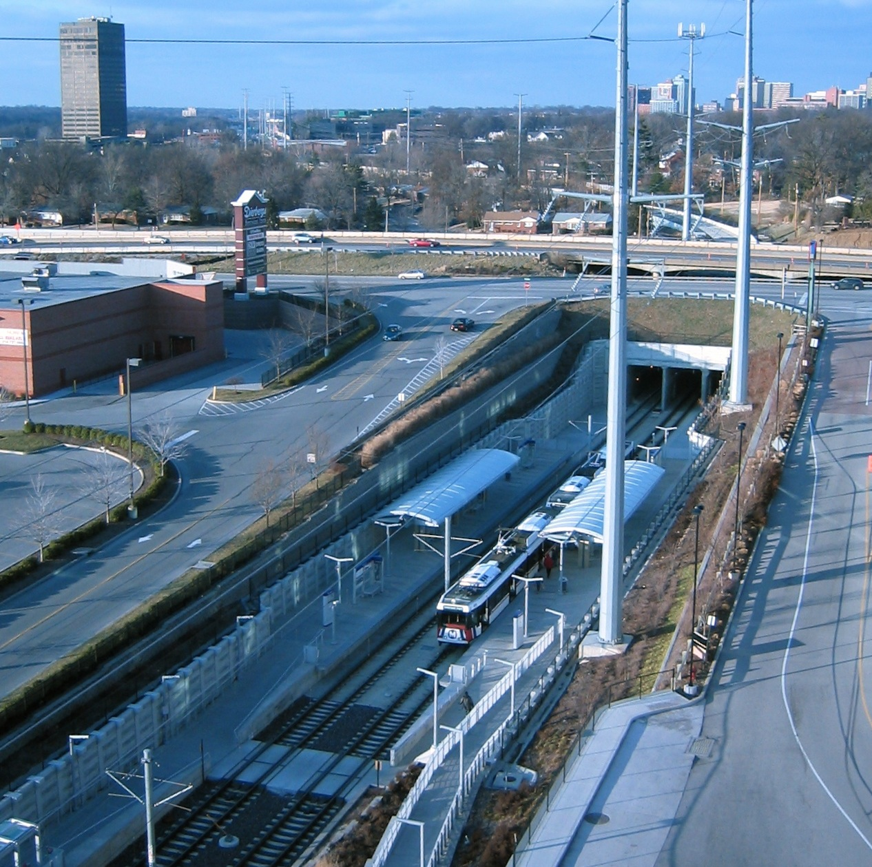 A MetroLink train at Brentwood I-64. Downtown Clayton, Missouri can be seen in the background.